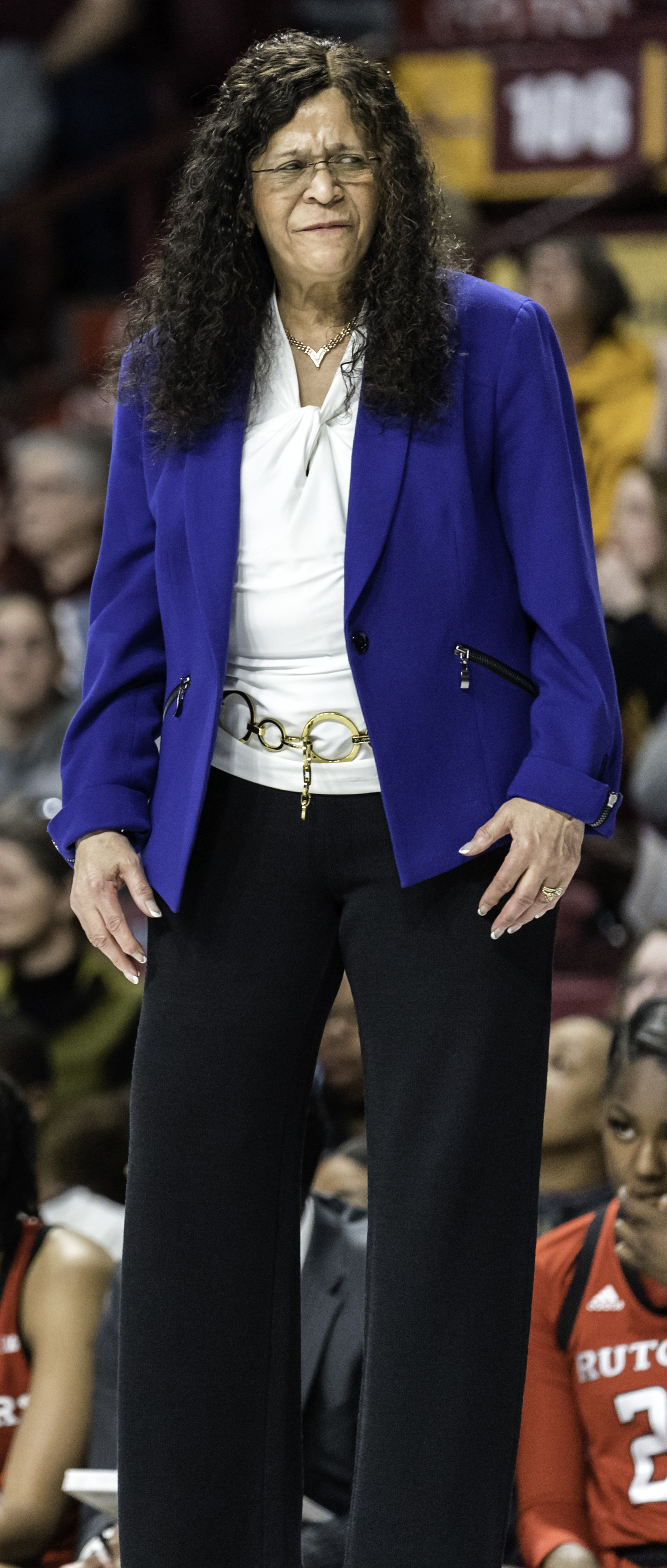 Rutgers women's basketball head coach, C. Vivian Stringer on the sidelines in a game against Minnesota